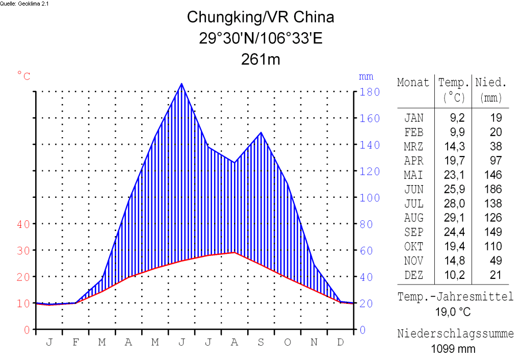 climate chart in the format by Walter and Lieth, metric, °Celsisus and millimeters, made with Geoklima 2.1